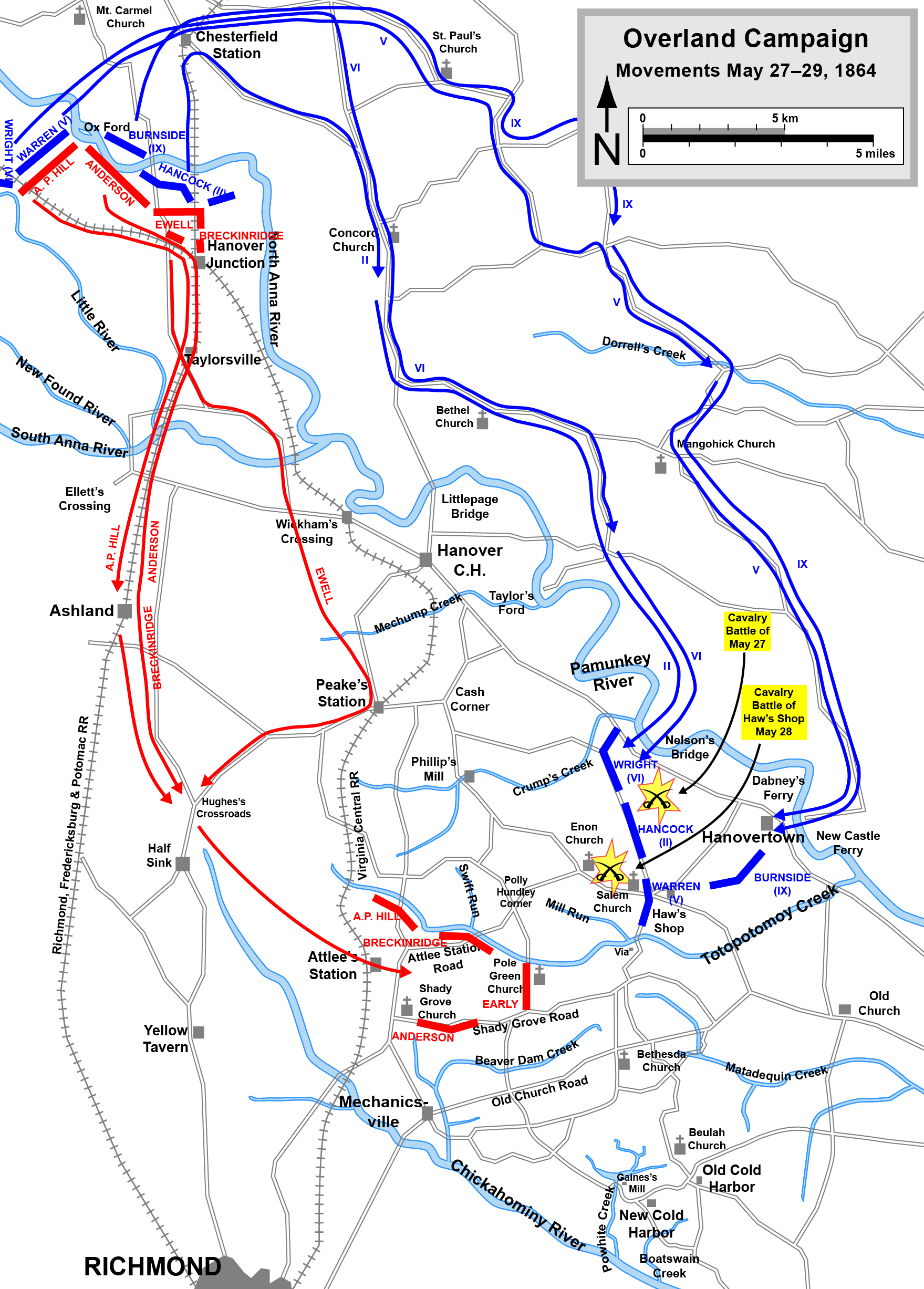 One of a series of overview maps of the Overland Campaign of the American Civil War, drawn in Adobe Illustrator CS5 by Hal Jespersen. Graphic source file is available at Attribution: Map by Hal Jespersen